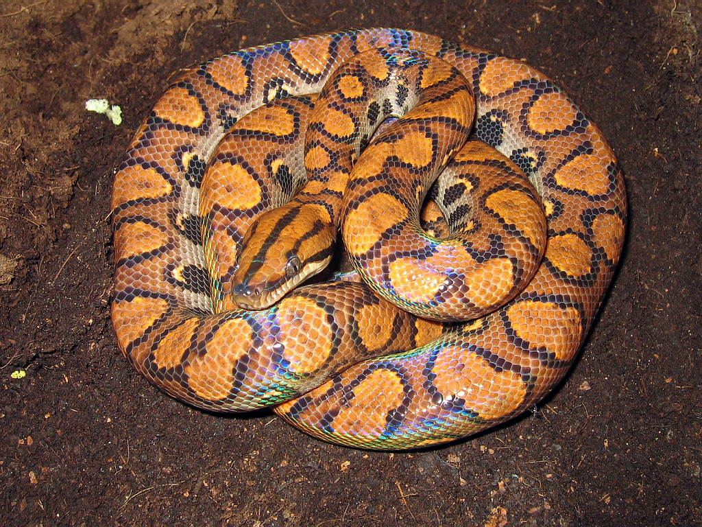 Epicrates Cenchria Cenchria Photo: karoH